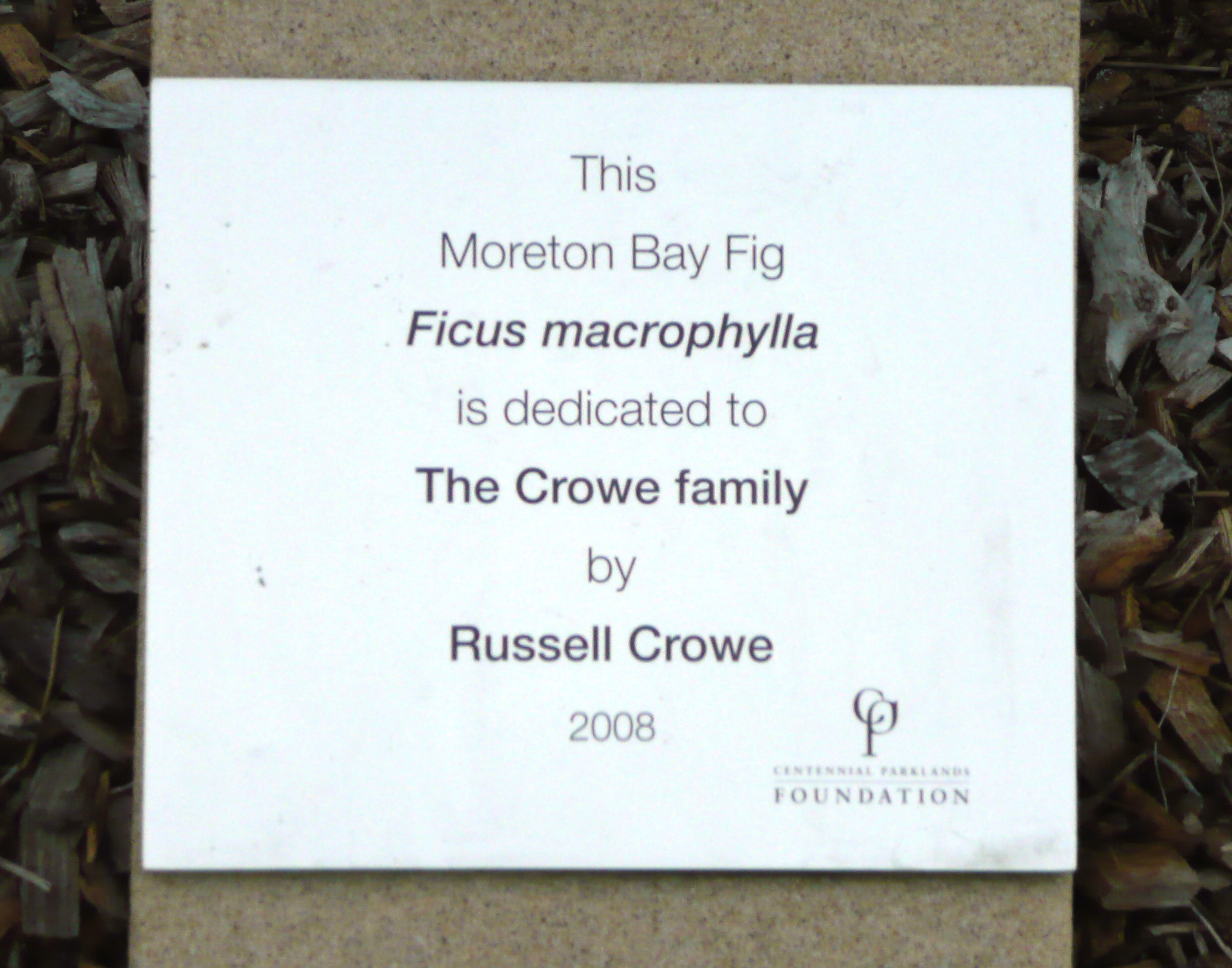 Russell Crowe tree donation, Centennial Park, Sydney